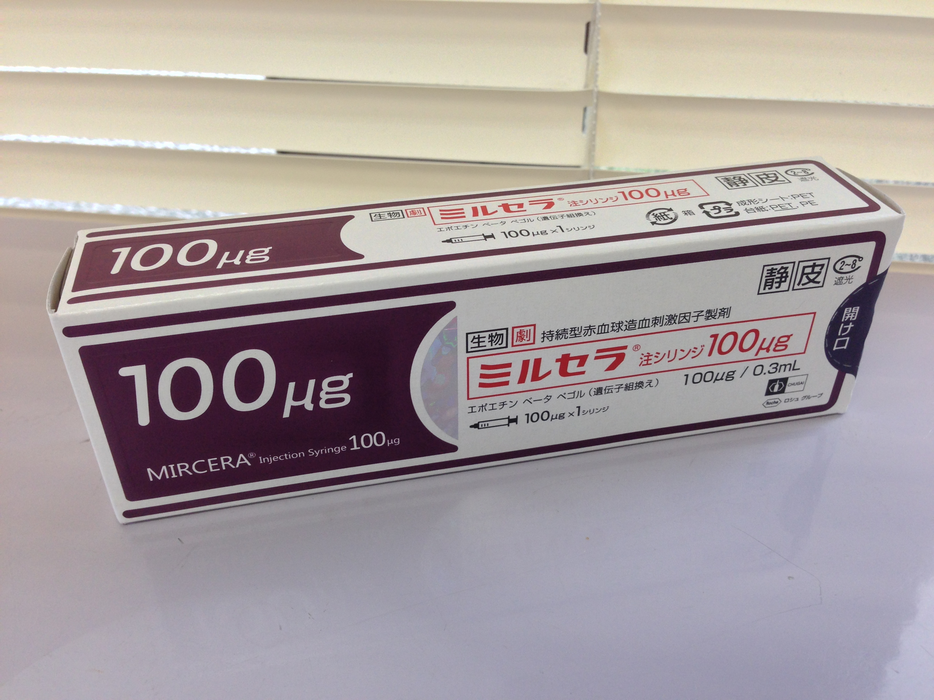 Epoetin Beta Pegol（Genetical Recombination）（JAN） MIRCERA